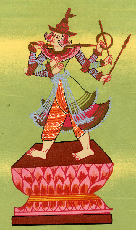 Shin Byu nat (spirit), th in the official pantheon of Burmese nats